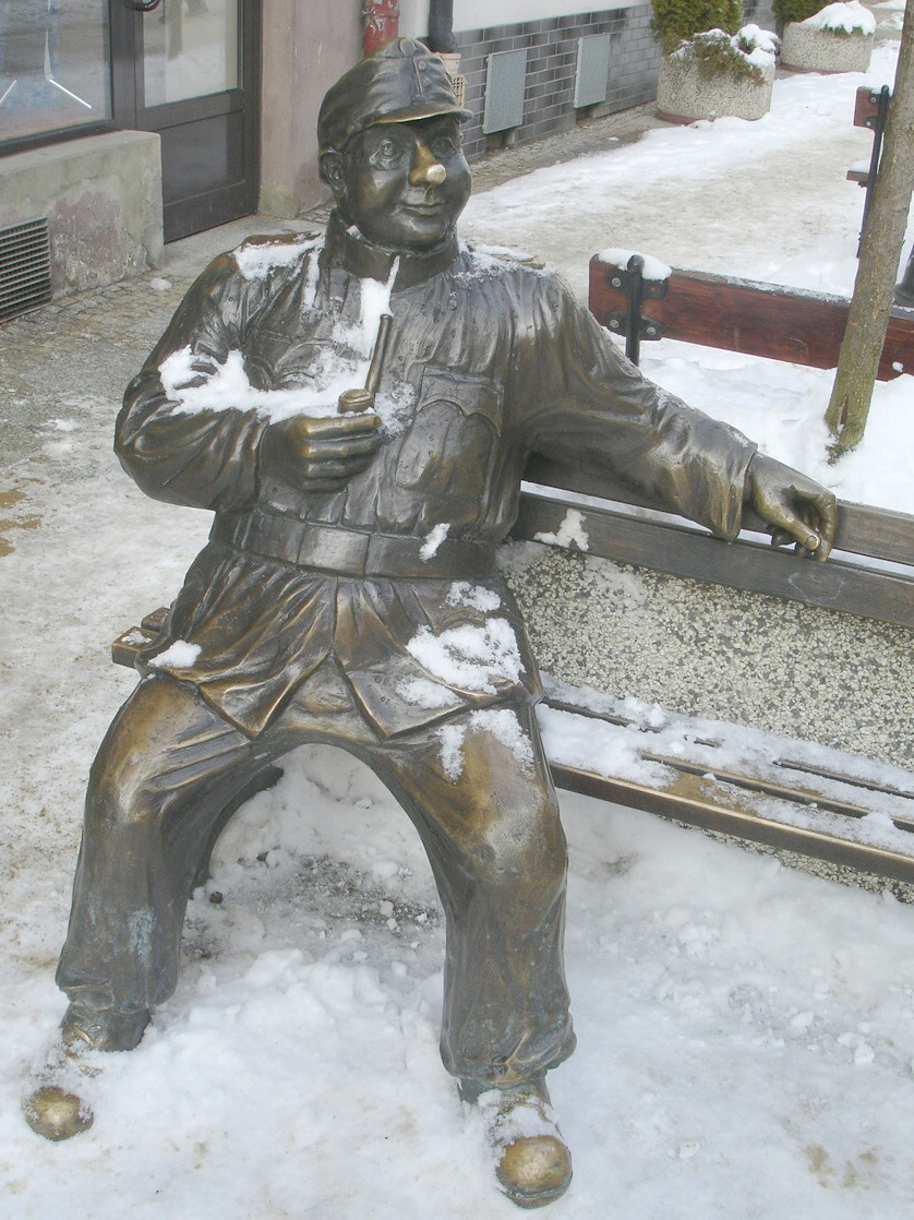 Legendary Czech soldier Josef Ŝvejk in Sanok, Poland (artist of the monument: Adam Przybysz)